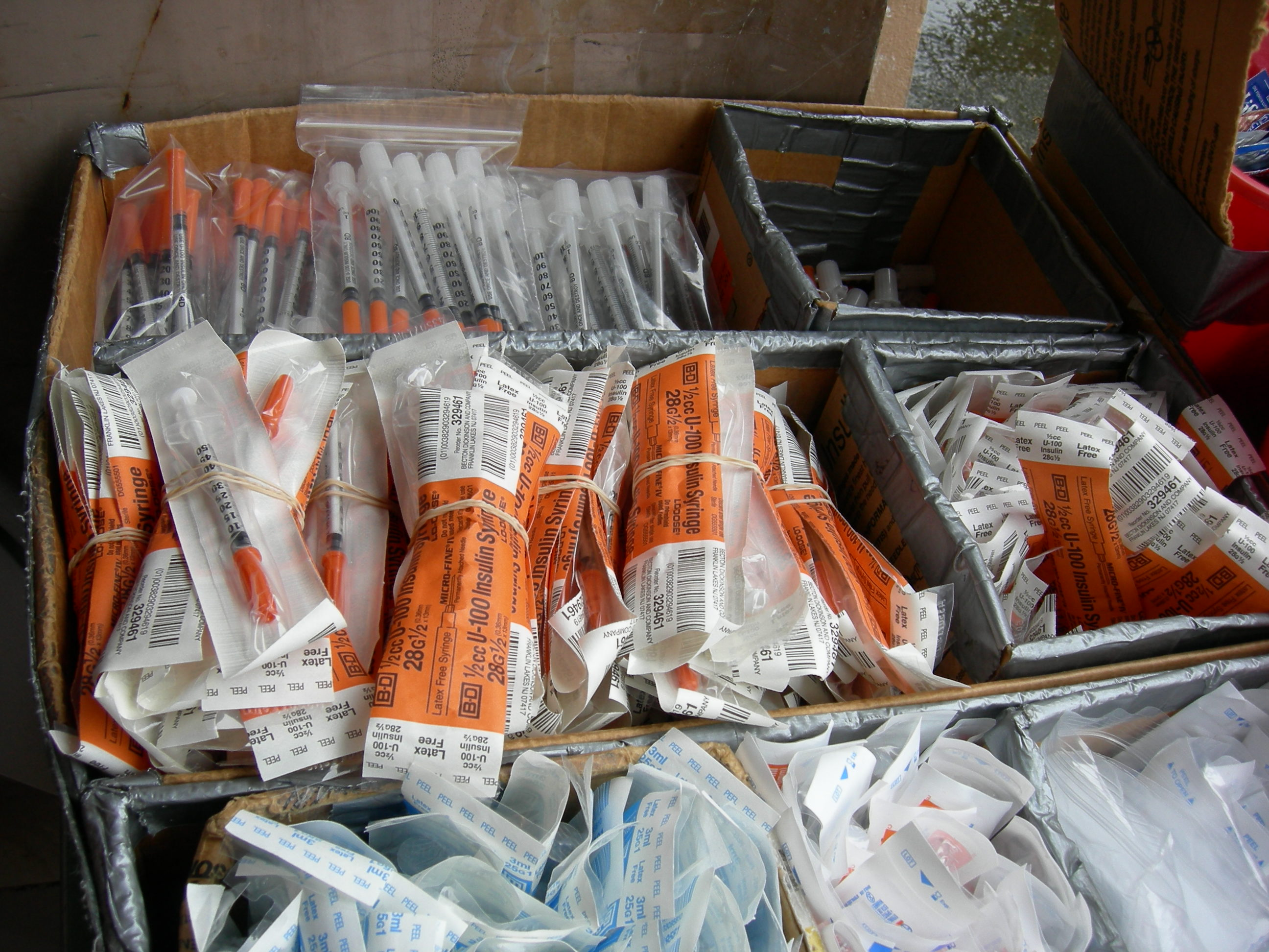 Clean hypodermic needles and other supplies. Photographed at Street Outreach Services needle exchange, University District, Seattle, Washington.